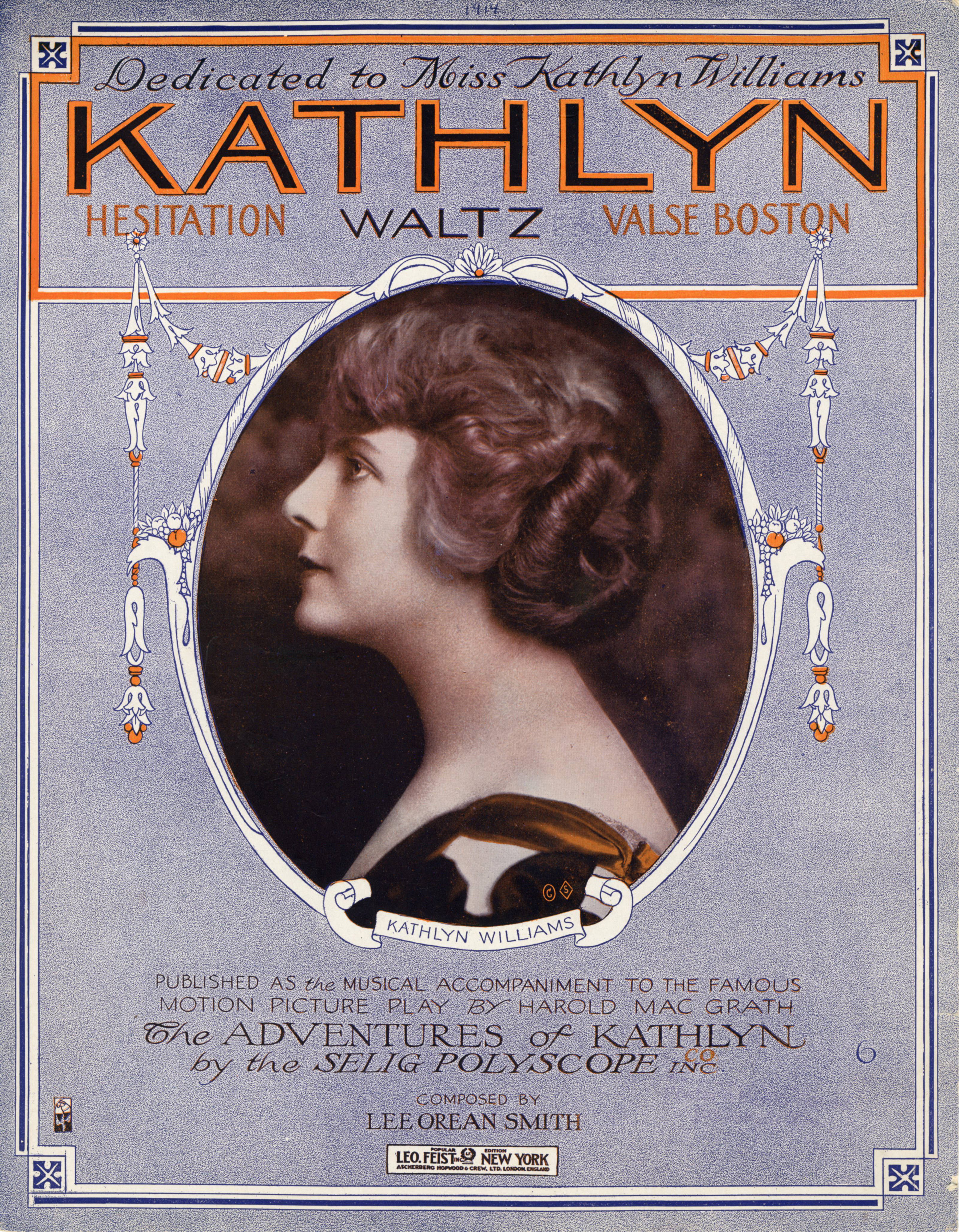 Sheet music cover: "Kathlyn : Valse : Hesitation Waltz : Valse Boston" 1 piano score (5 p.) ; 35 cm. Illustrated cover with image of Kathlyn Williams. ADVENTURES OF KATHLYN (Motion picture : 1913-1914)